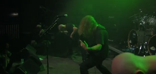 Necrophagist performing live at "Mountains of Death."